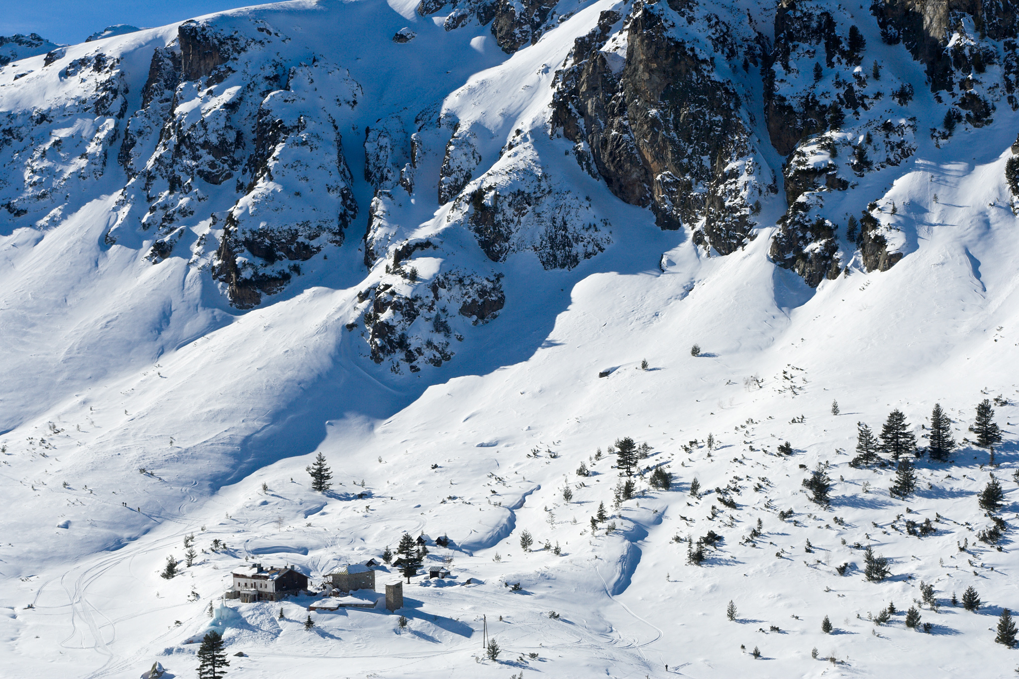 The Maliovica refuge in Rila mountain, Bulgaria. Picture taken on the way to Strashnoto lake.